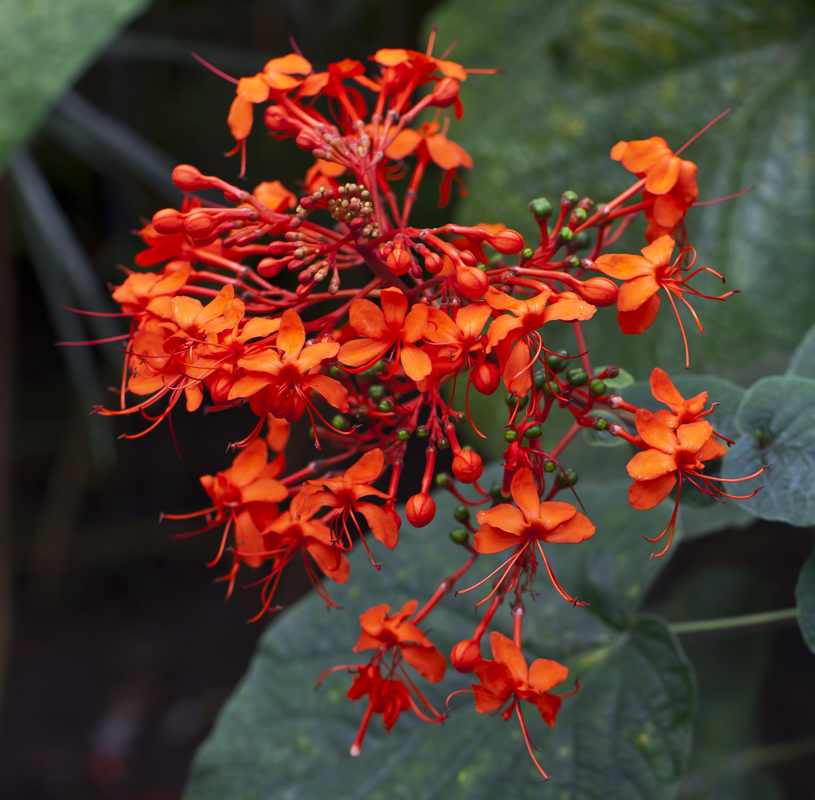 Clerodendrum speciosissimum, Tallinn Botanic Garden, Estonia